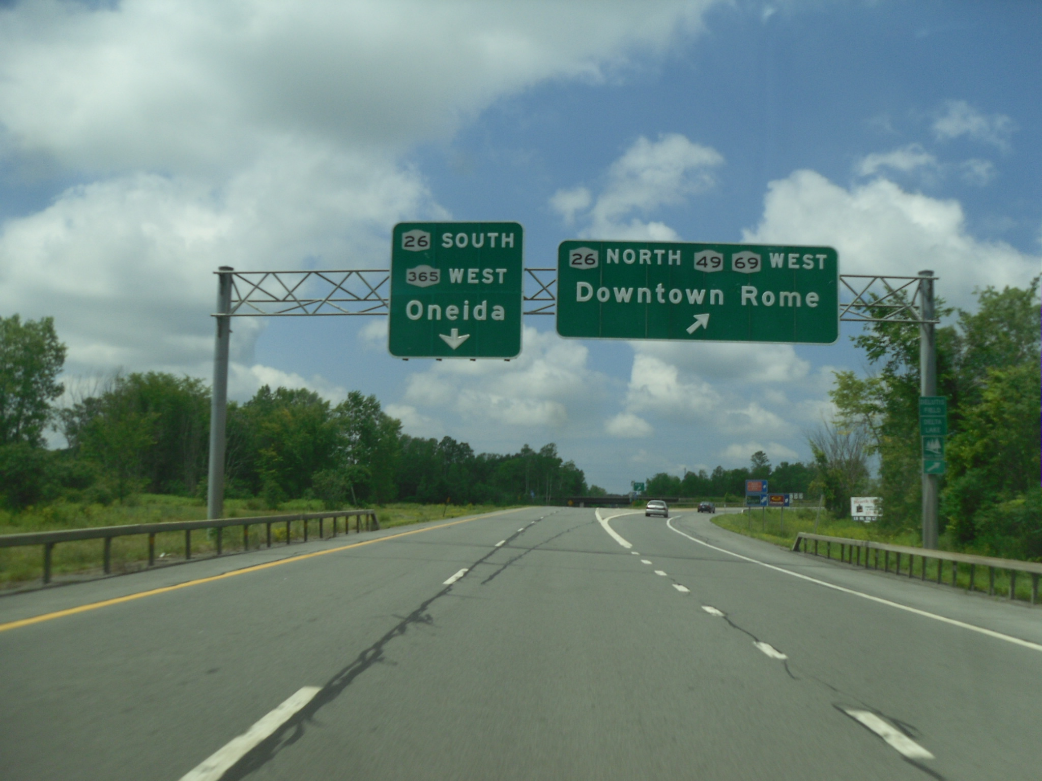 New York State Route 365 westbound at the highway's interchange with New York State Route 26 northbound in Rome. Westbound New York State Route 49 and New York State Route 69 split from NY 365 here, while NY 26 southbound merges into NY 365.